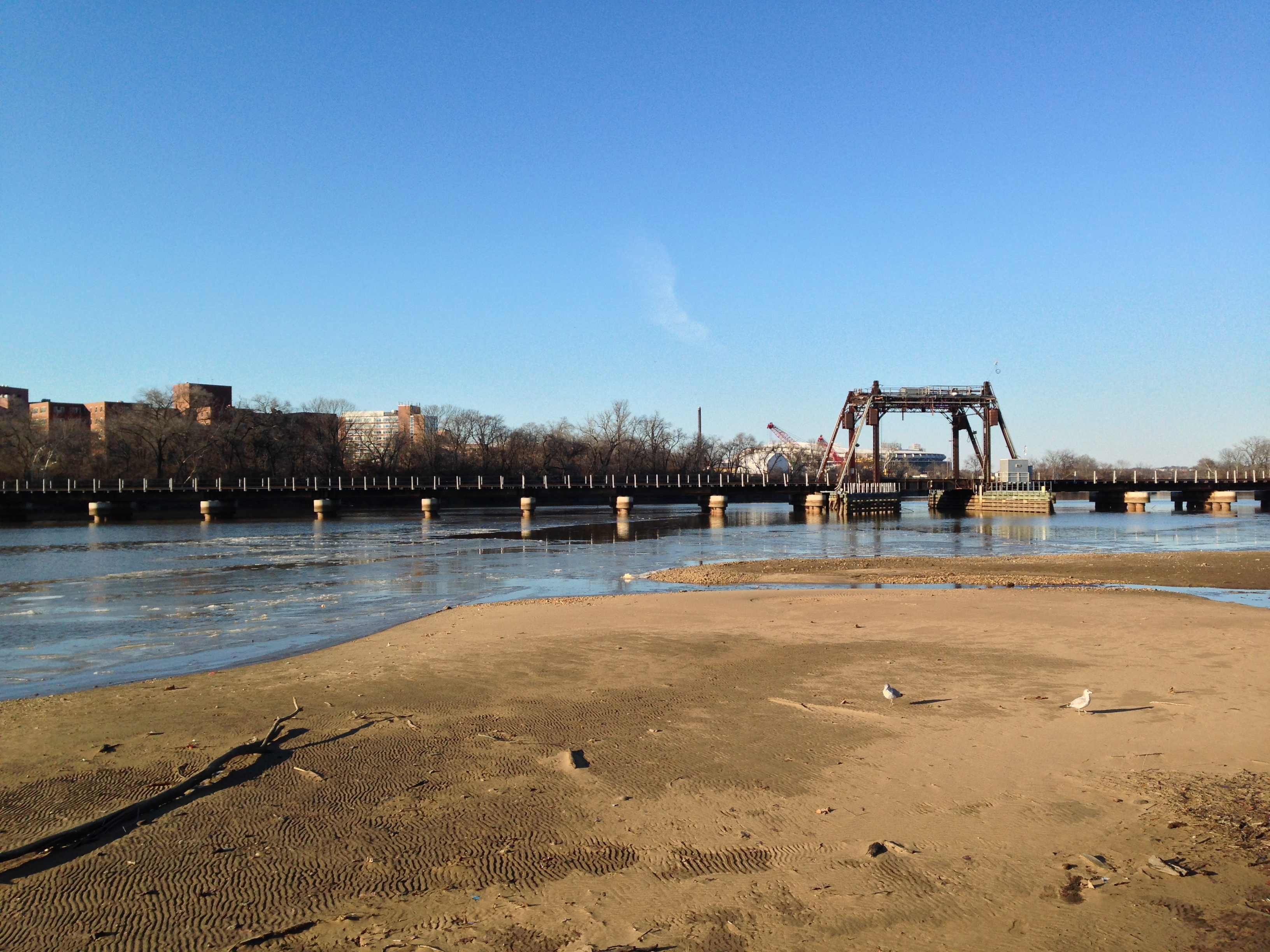 The Anacostia Railroad Bridge over the Anacostia River in Washington, DC in January 2015, with Robert F. Kennedy Memorial Stadium in the background